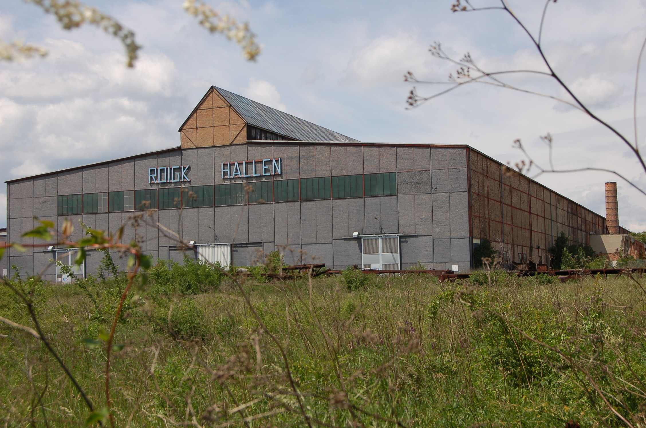 The so called Serbenhalle at Pottendorfer Straße, Wiener Neustadt, ist the last remaining building of Raxwerke